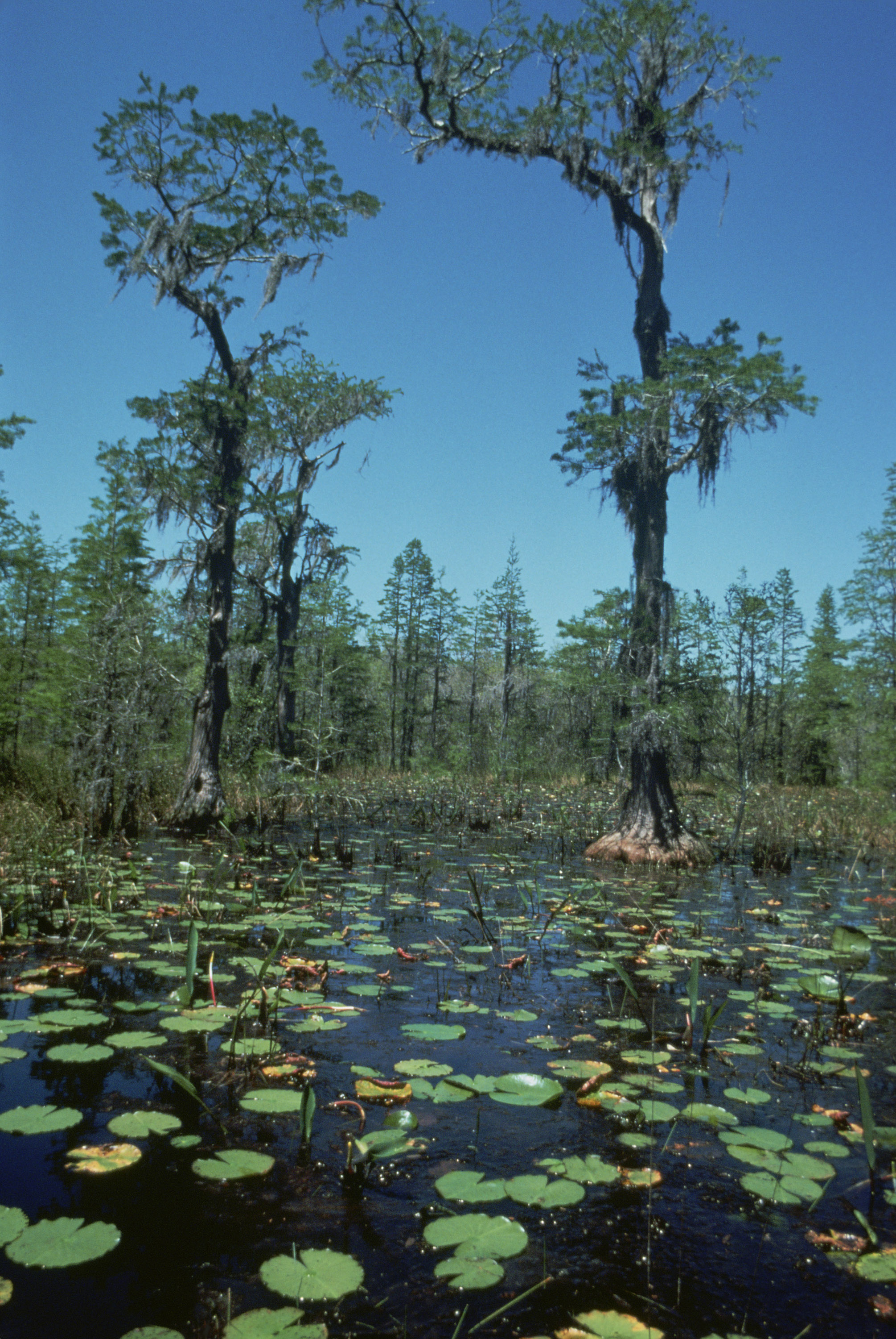 Taxodium ascendens wetlands, Okefenokee National Wildlife Refuge